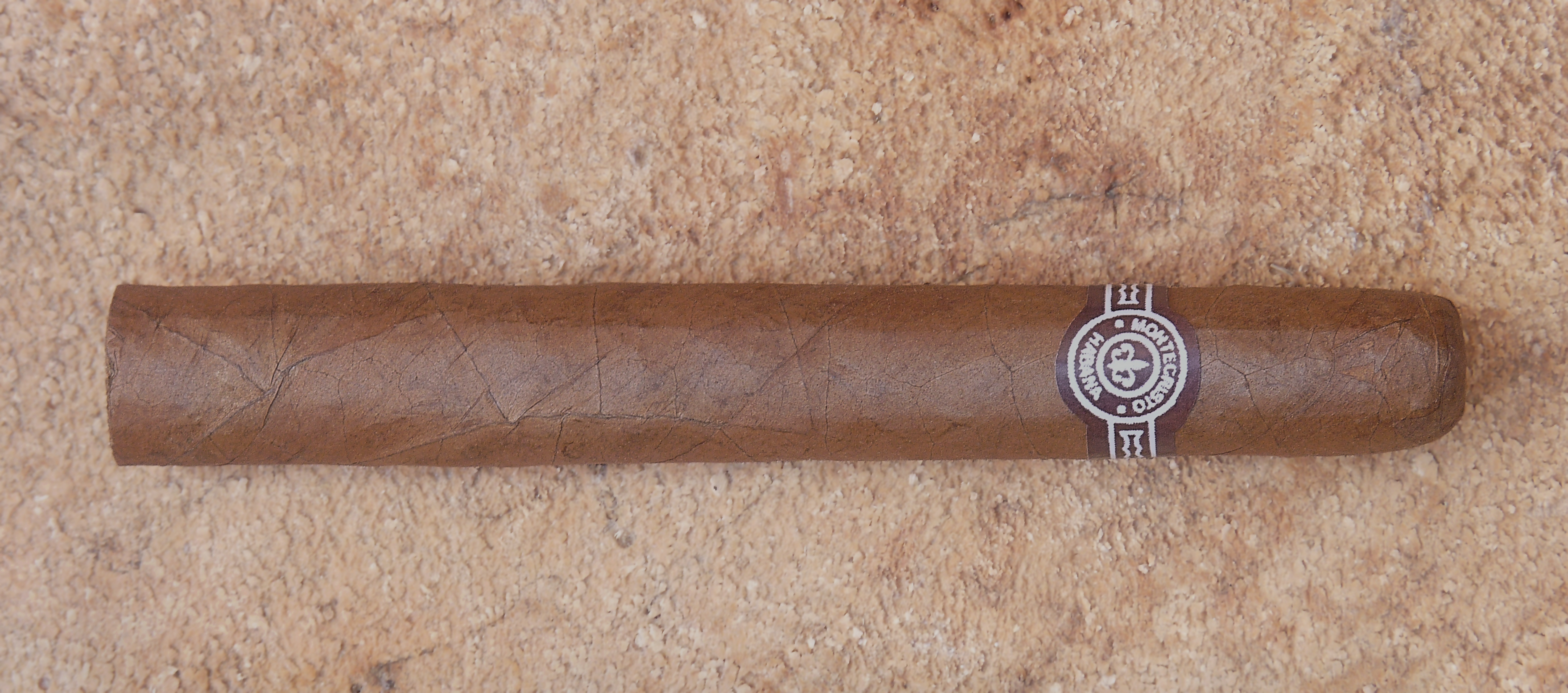 Cigar Montecristo Number 4, (diameter: 1,7 cm, length: 12,75 cm).